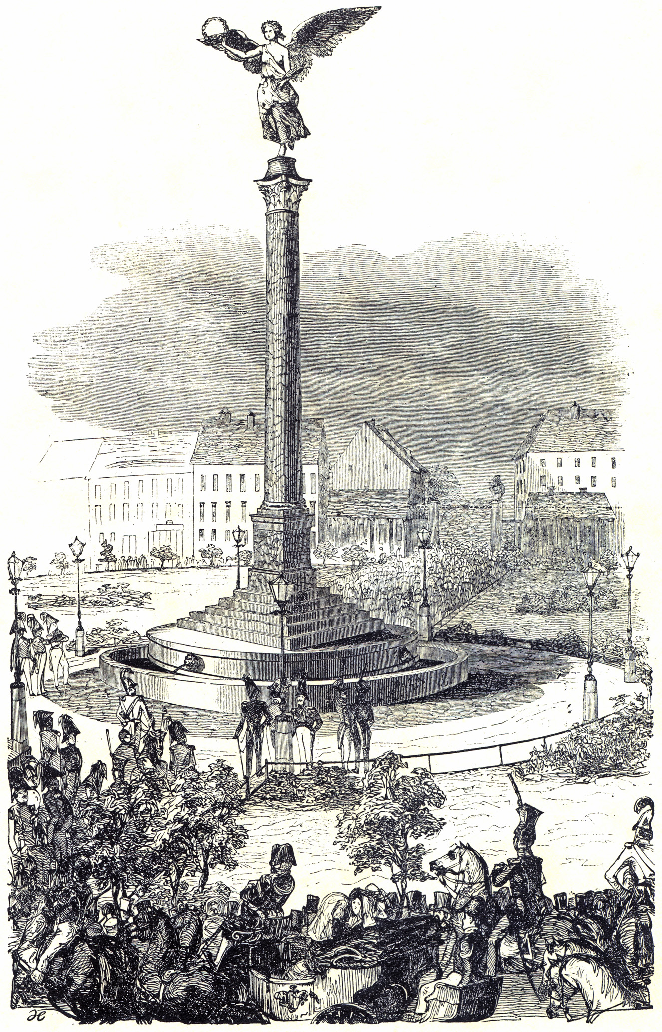 Column of peace on Belle-Alliance-Place in Berlin.